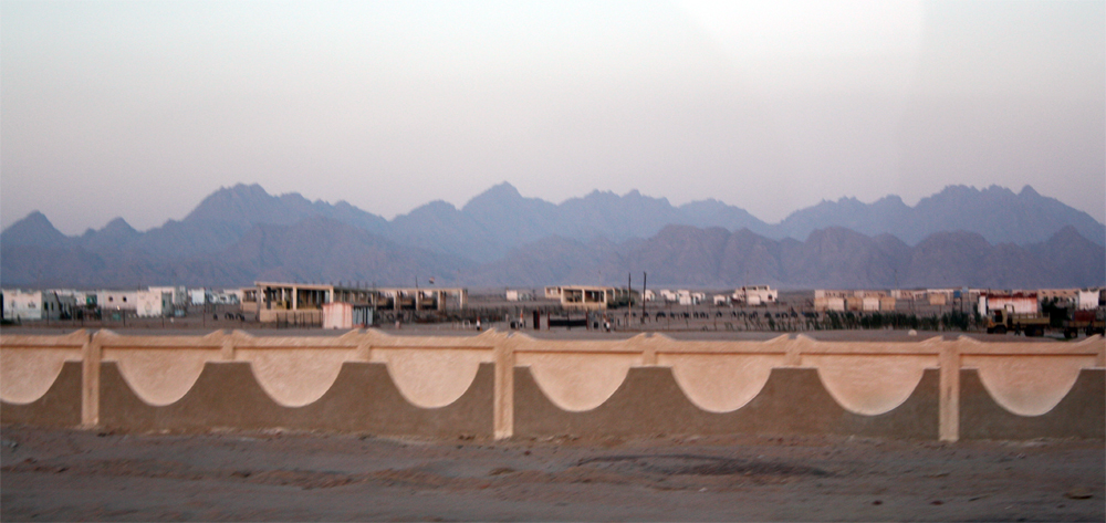 Shayib al-Banat mountain peaks of the Eastern Desert mountain range. Along the Hurgada-Safaga Road, in the Red Sea Governorate - Egypt.